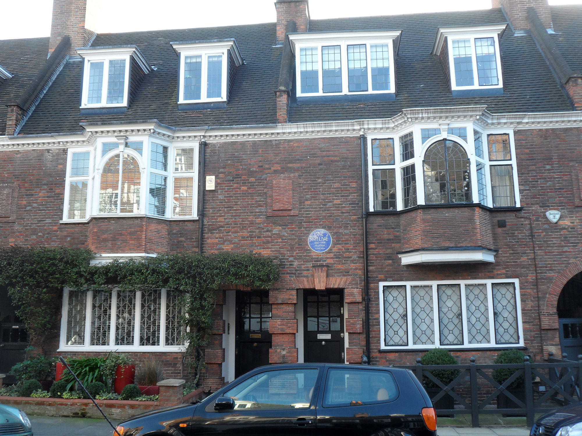 A.A. Milne 1882-1956 Author lived here